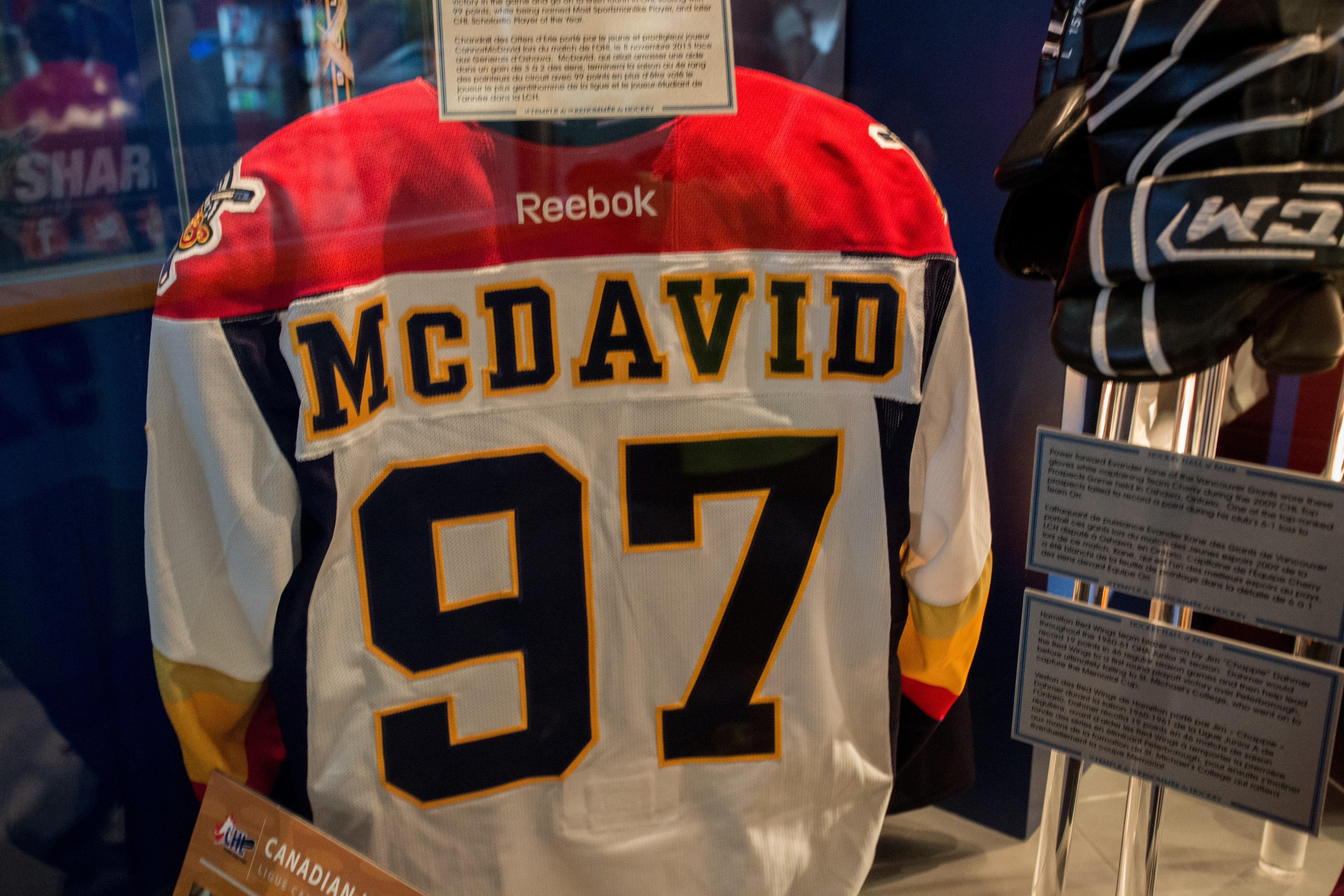 Connor McDavid's sweater with the OHL's Erie Otters at the Hockey Hall of Fame